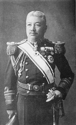 Masuji Yamanouchi